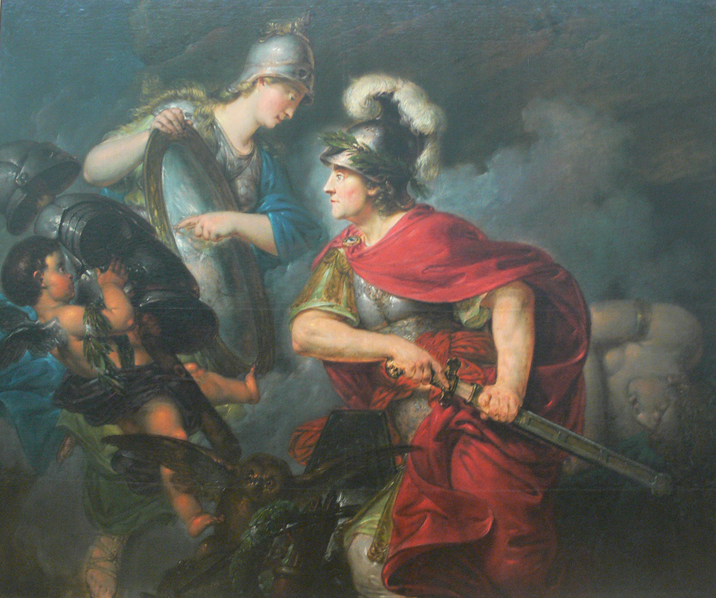 Christian Bernhardt Rode: Frederick the Great as Perseus (Allegory on the beginning of the Seven Years' War 1756), oil on canvas, 1789. Gemäldegalerie (cat. no. 1914, acquired in 1923), on display in the Bode-Museum, Berlin.